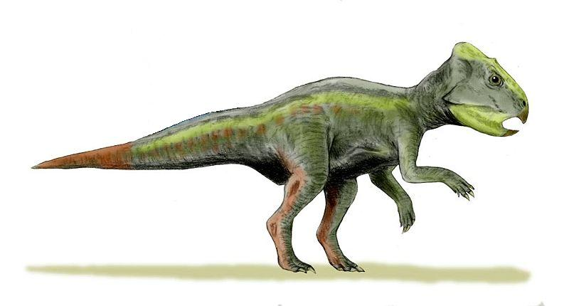 Archaeoceratops oshimai, a ceratopsian from the Early Cretaceous of China, pencil drawing, digital coloring